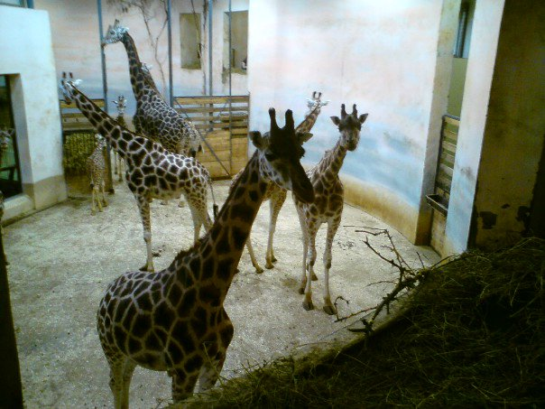 Giraffes i the new Giraffstable 2010